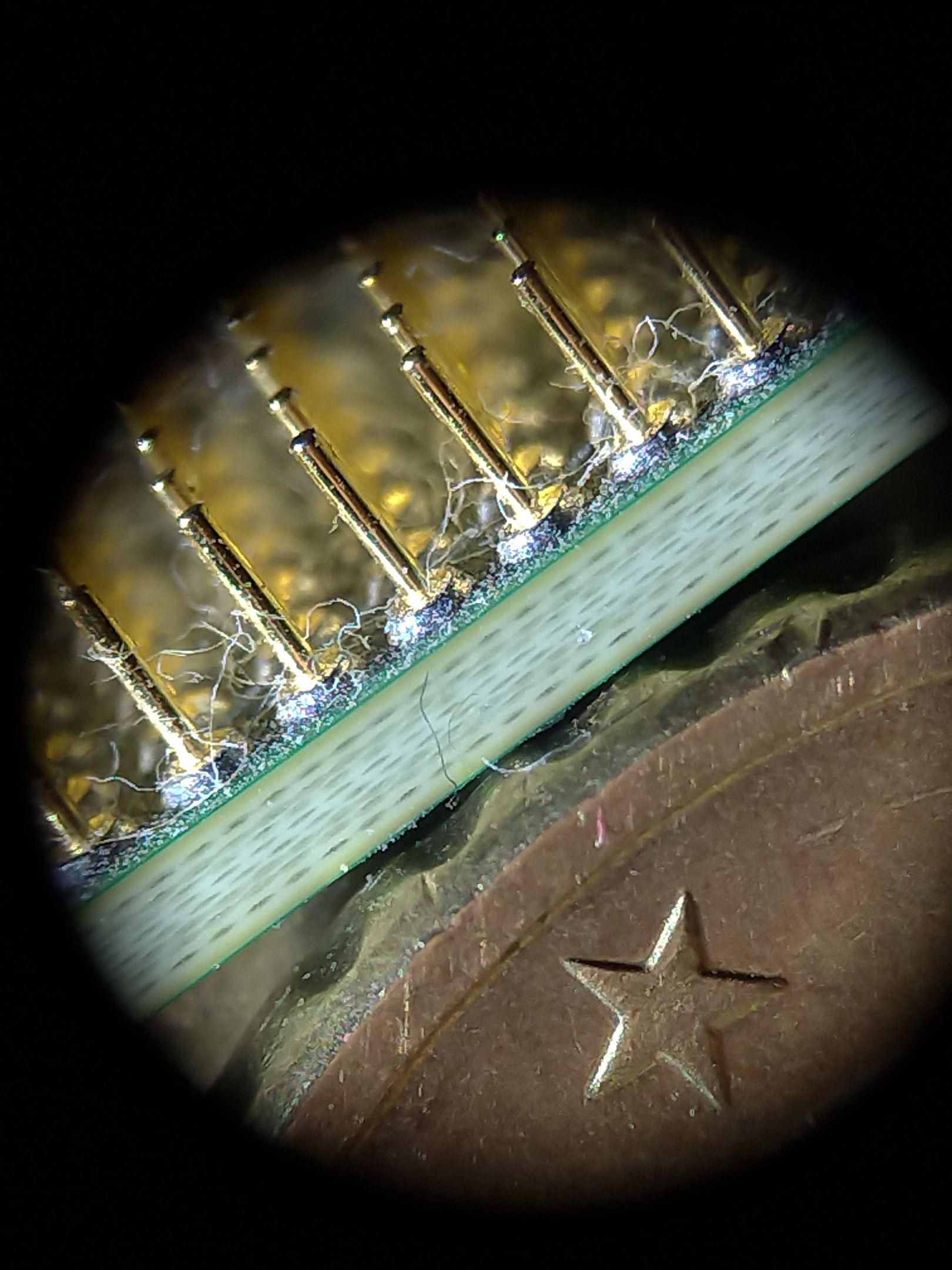 Picture of a AM3 CPU with 50eurocent coin in comparison